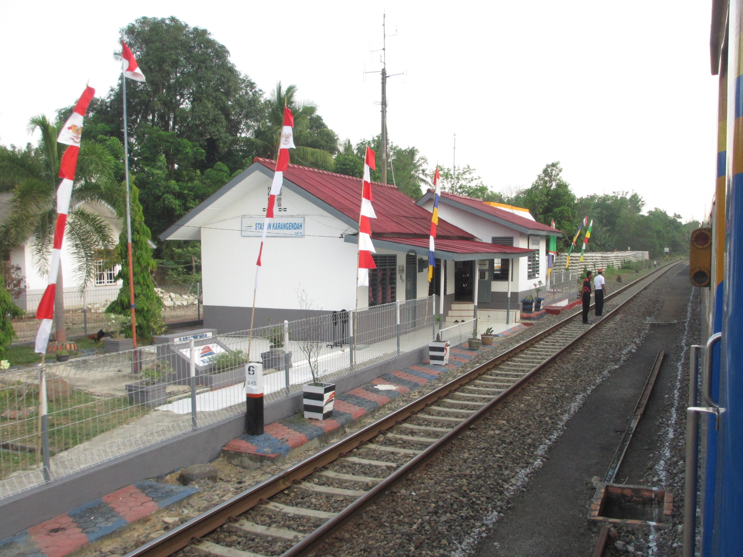 Karangendah Railway Station.